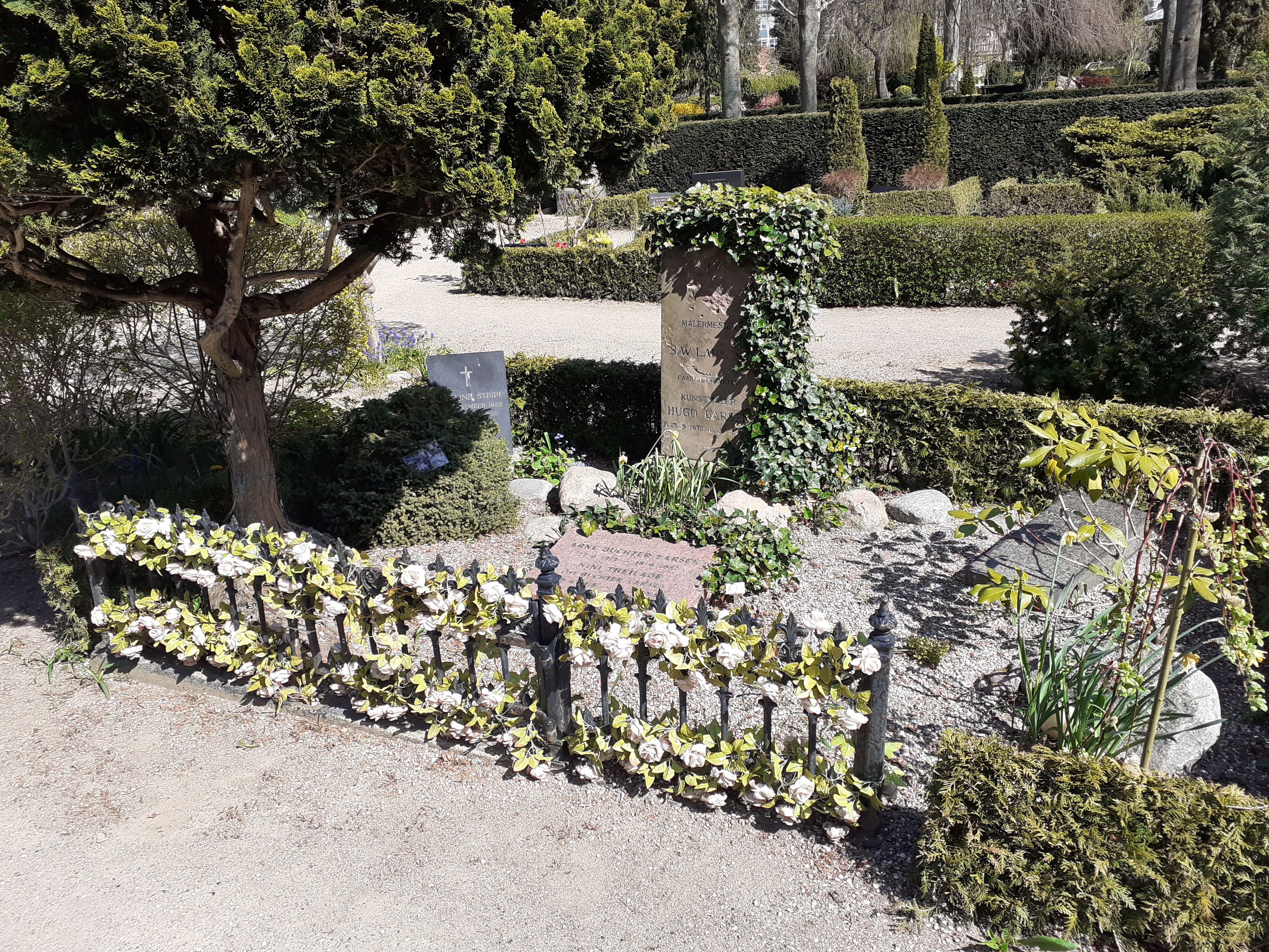 The grave of the painter Hugo Larsen (1875-1950) at Holmens Kirkegård in Copenhagen.